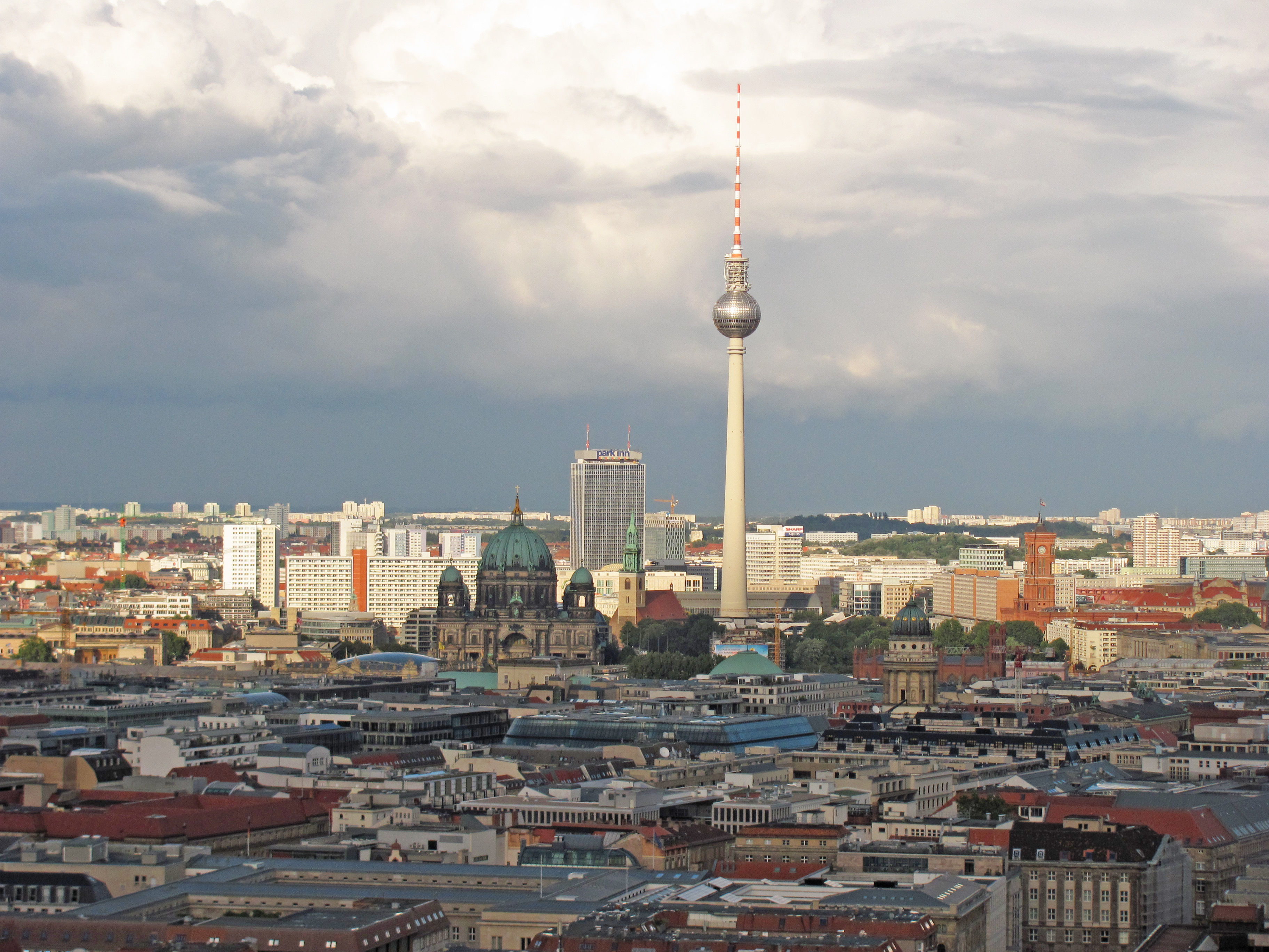 View from Kollhoff-Tower (Panoramapunkt). In the center of picture is Berlin Cathedral and TV tower. This photograph was taken with a Canon PowerShot SX120 IS